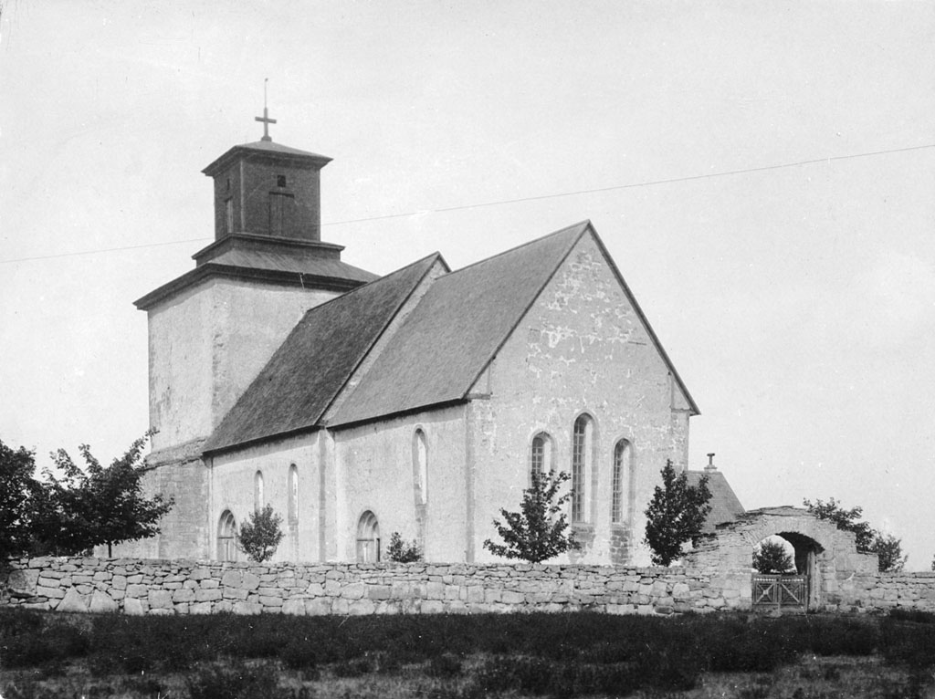 Vamlingbo Church on southern island of Gotland. The church was built in the middle of the 13th century. The photographer Olivia Wittberg (1844-1908) was from Gotland.